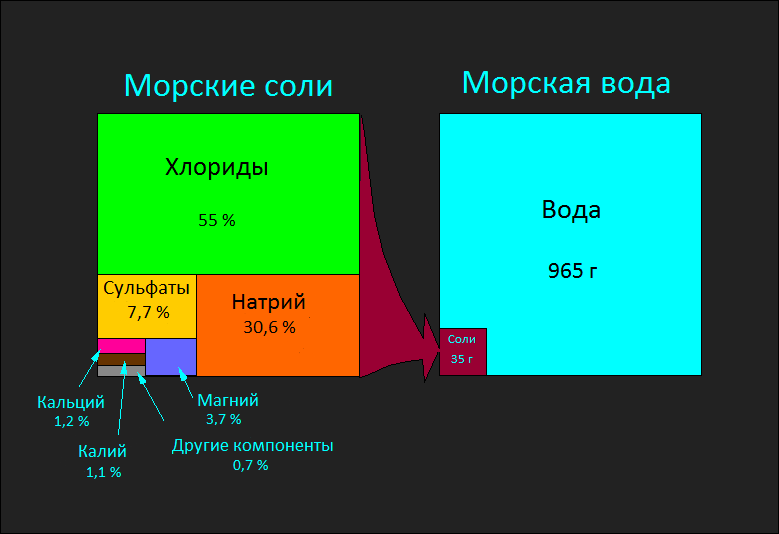 Sea water components, based on File:Sea salt-e hg.png